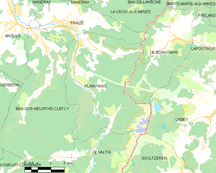 Map of French municipality Plainfaing